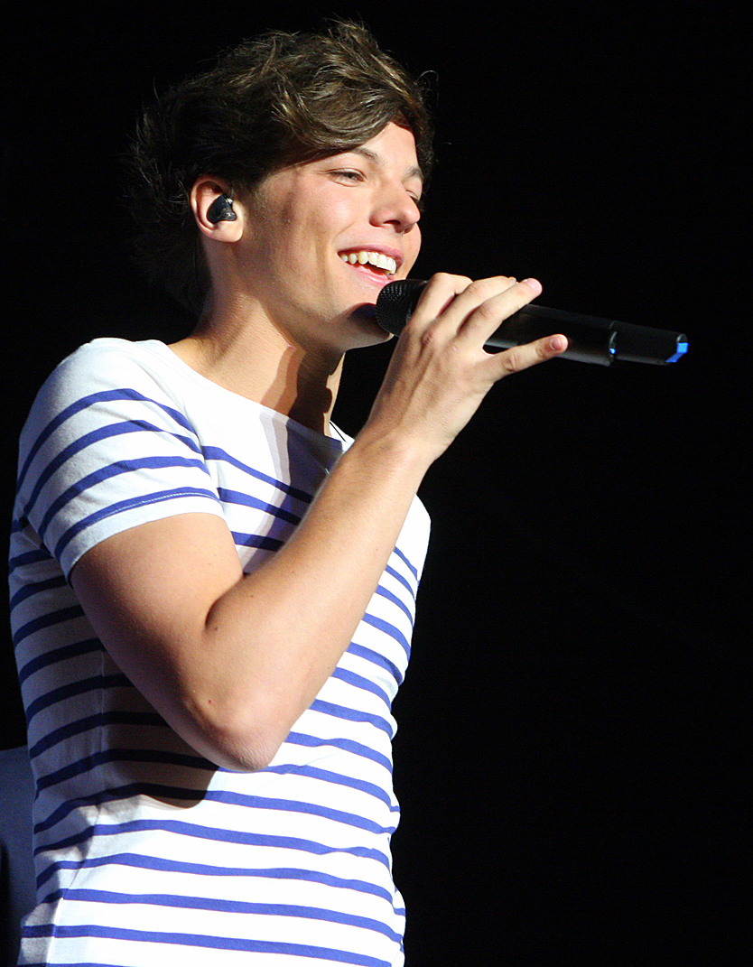 Louis Tomlinson at the One Direction performs at Hordern Pavilion, Moore Park, Sydney, Australia 2012.